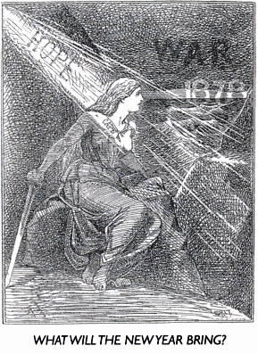 Cape Colony anticipates war in the coming year from Bartle Frere Confederation Plans. Cartoon from the pro-confederation Lantern Newspaper. 1877.